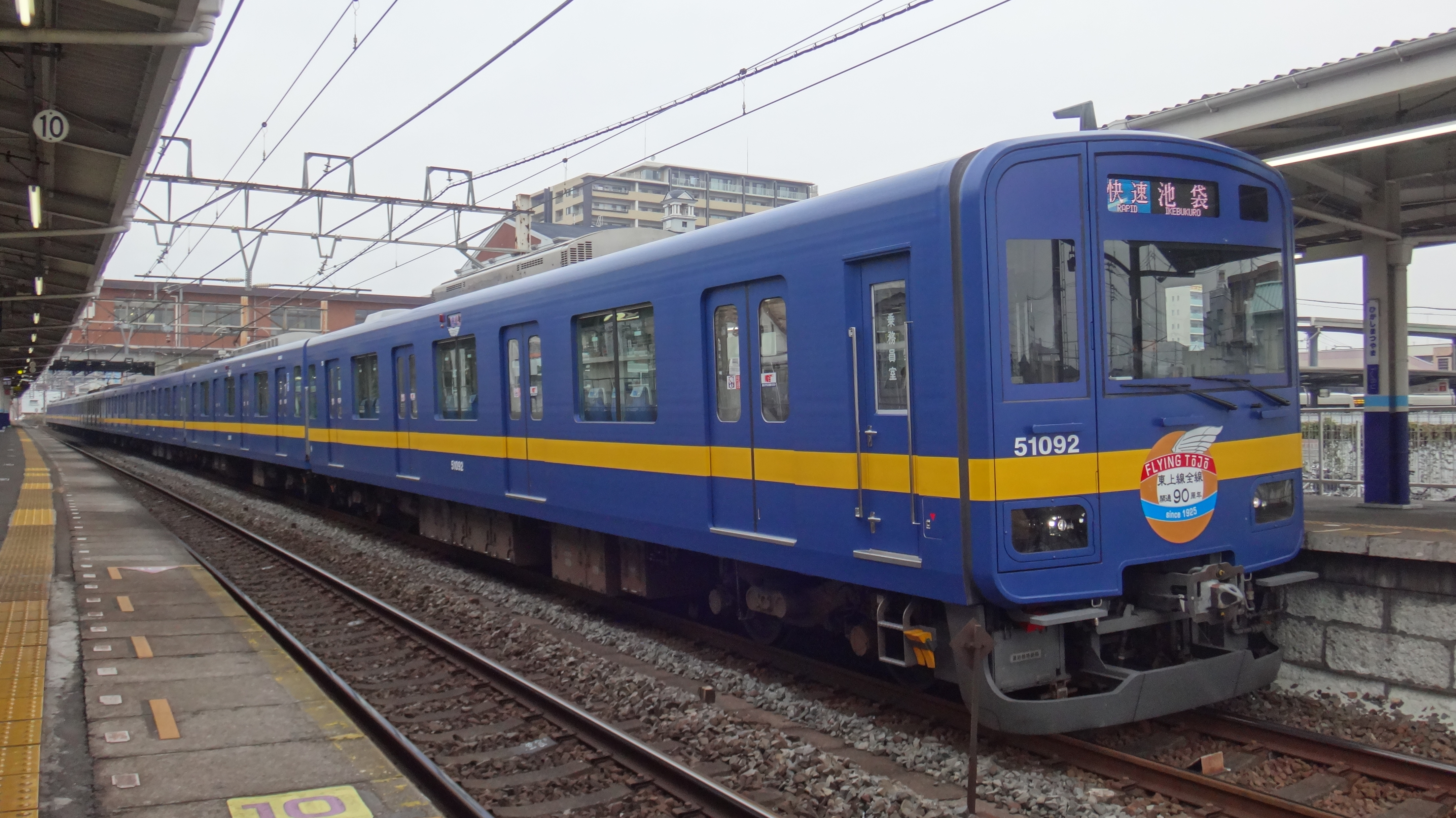 Tobu 50090 series EMU set 51092 in commemorative "Flying Tojo" livery at Higashi-Matsuyama Station on an up Rapid service from Ogawamachi to Ikebukuro